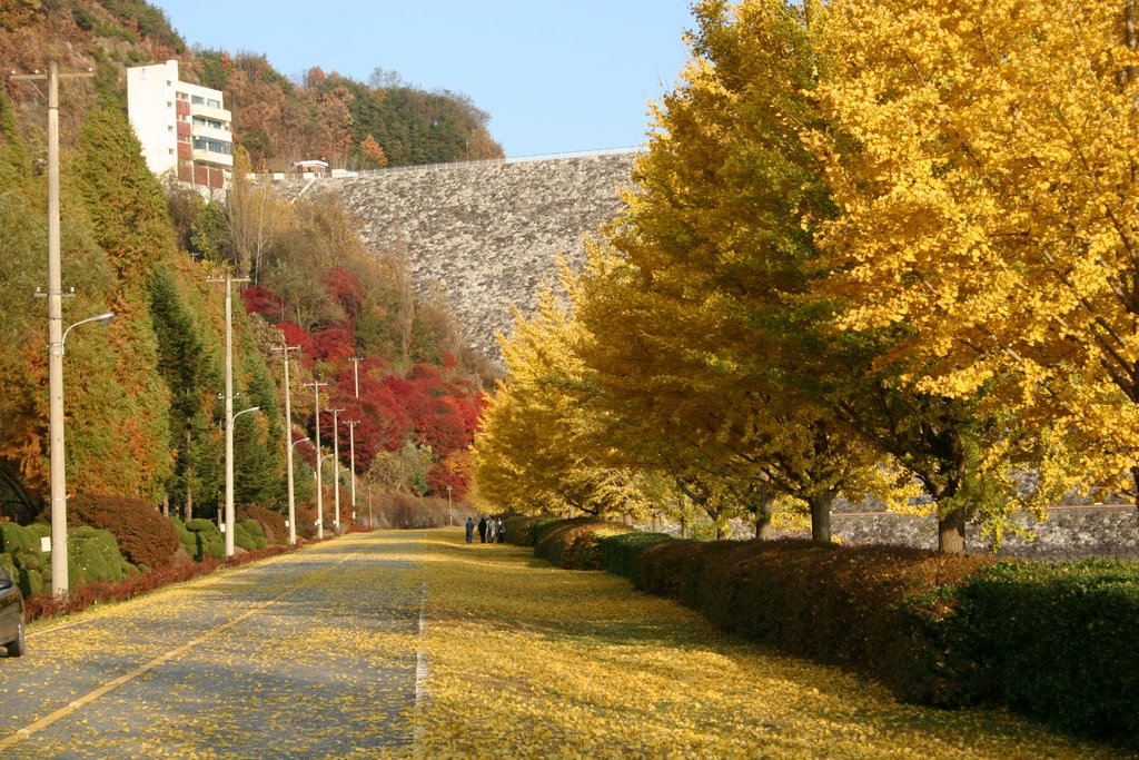 A scenry of Andong City, Gyeongsangbuk-do, South Korea